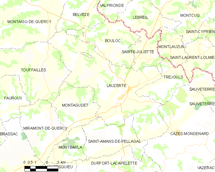 Map of French municipality Lauzerte